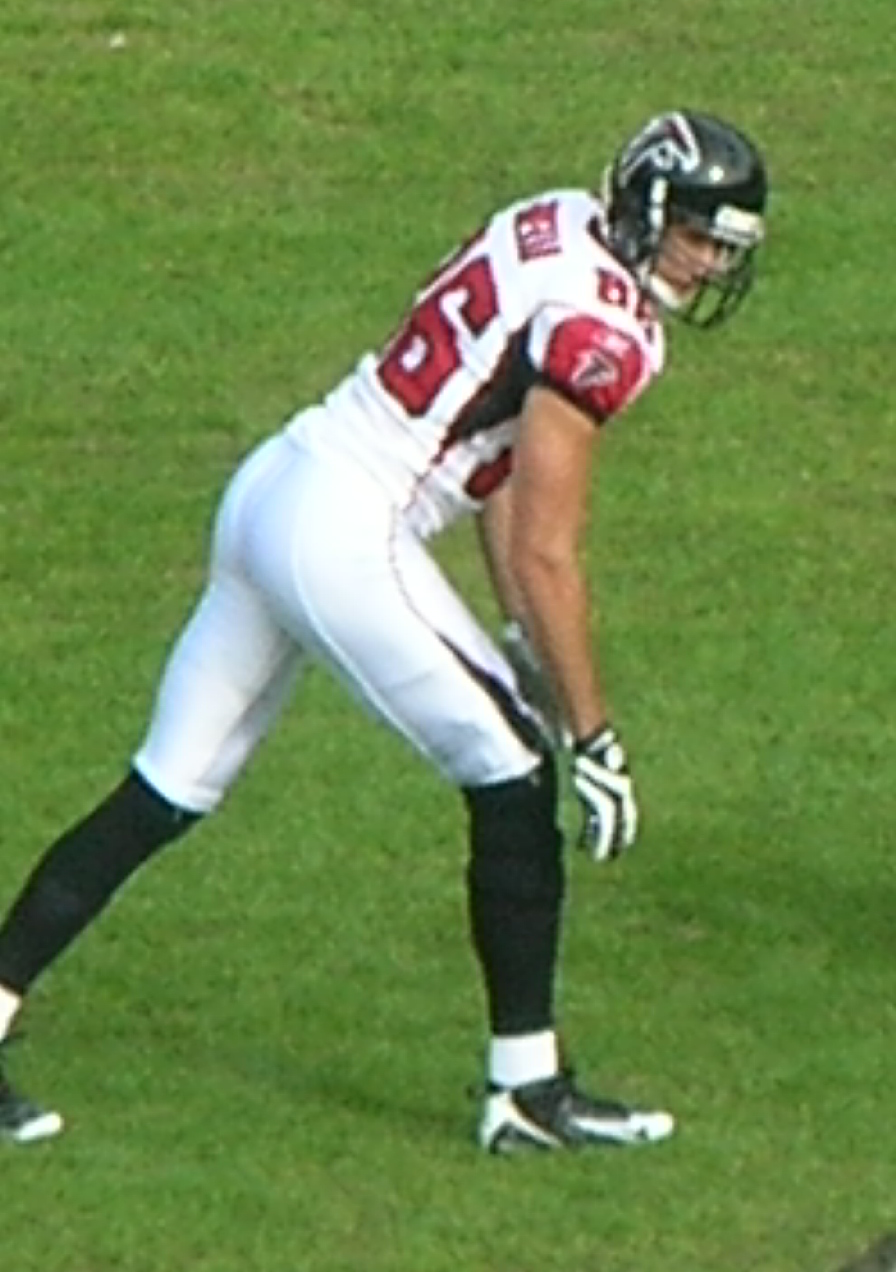 Atlanta Falcons wide receiver Brian Finneran at a road game against the Oakland Raiders. The Falcons won 24-0.